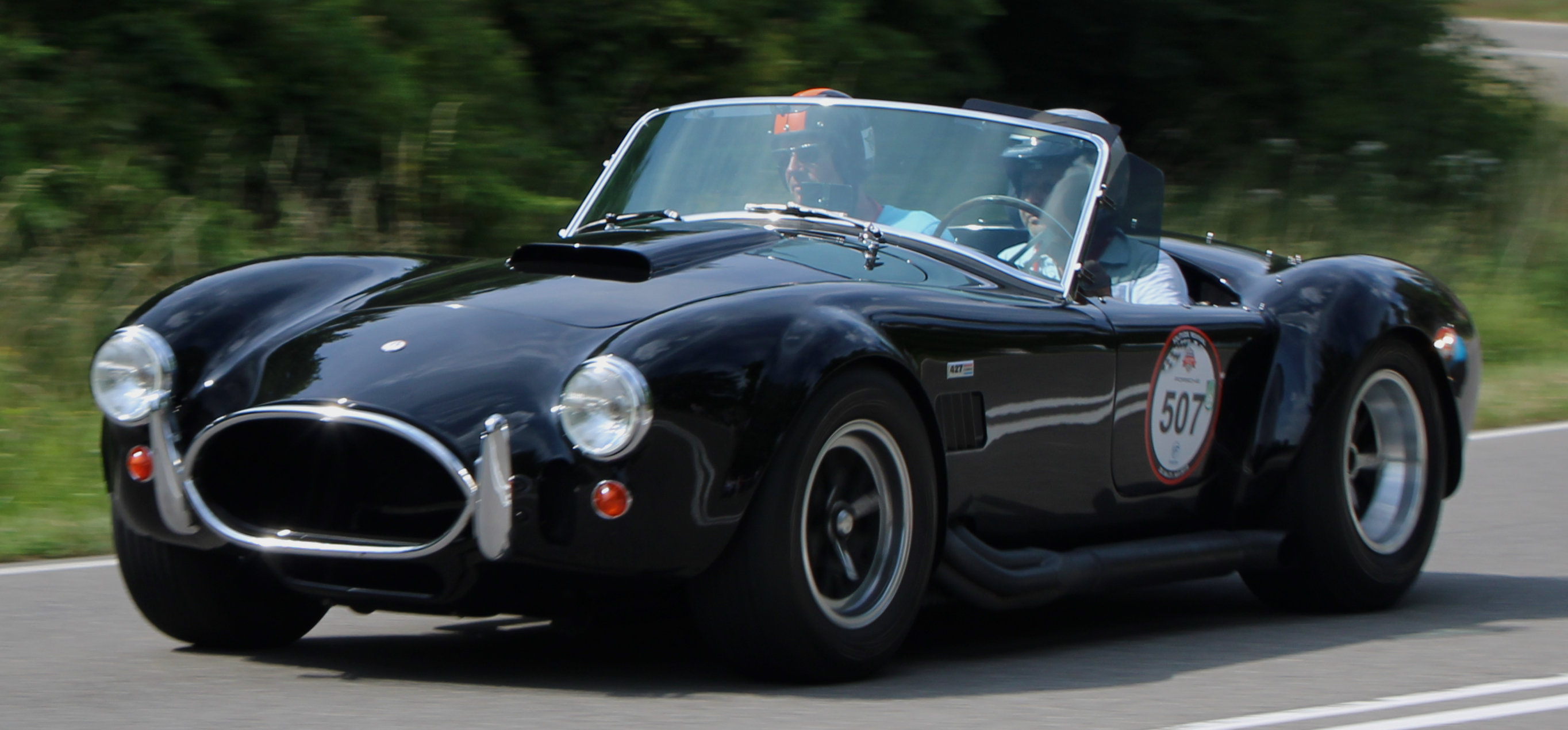 AC Cobra 289 (1963) at Solitude Revival 2019